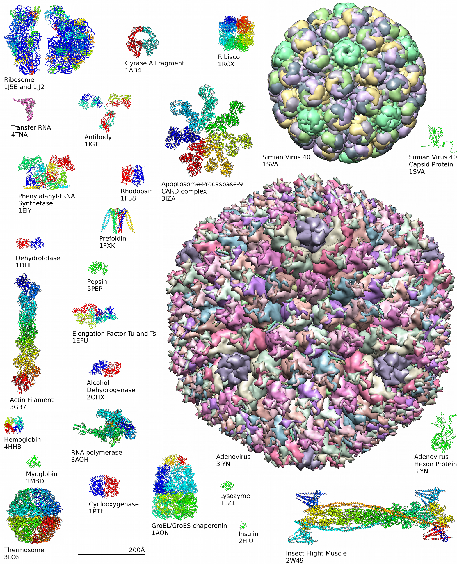 Examples of protein structures and complexes of different sizes as available from the PDB an EMDB